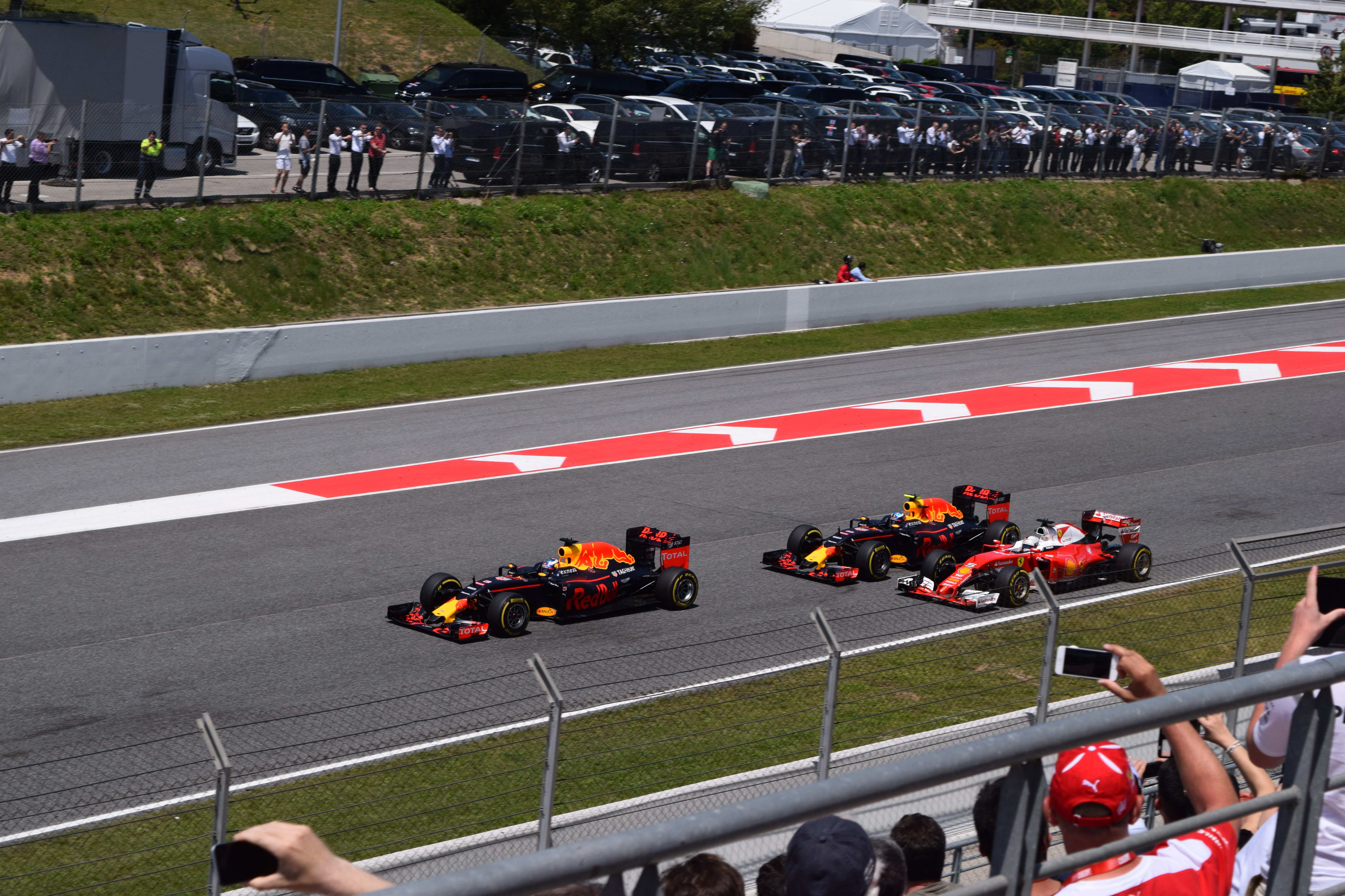 Fight for the lead at the 2016 Spanish Grand Prix